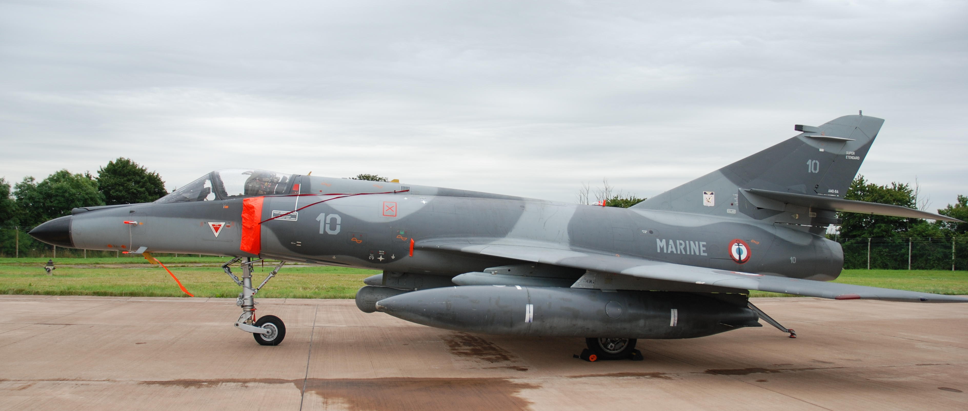 French Navy